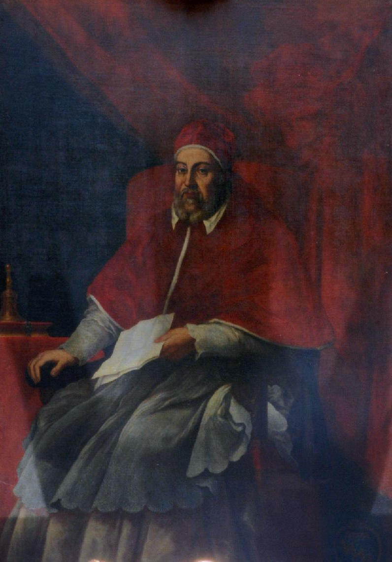 Pope Leo XI